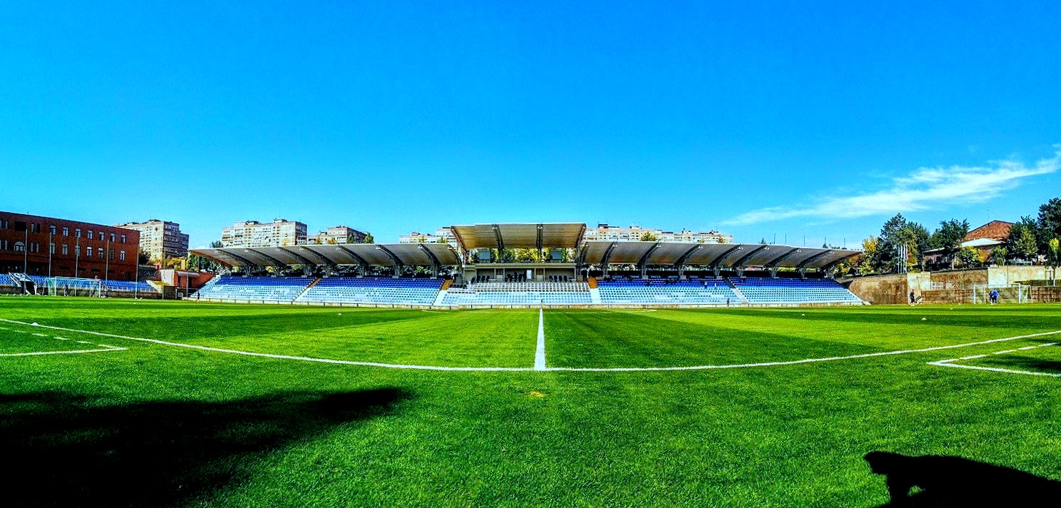 Banants stadium Yerevan, general view, 3 Oct. 2015